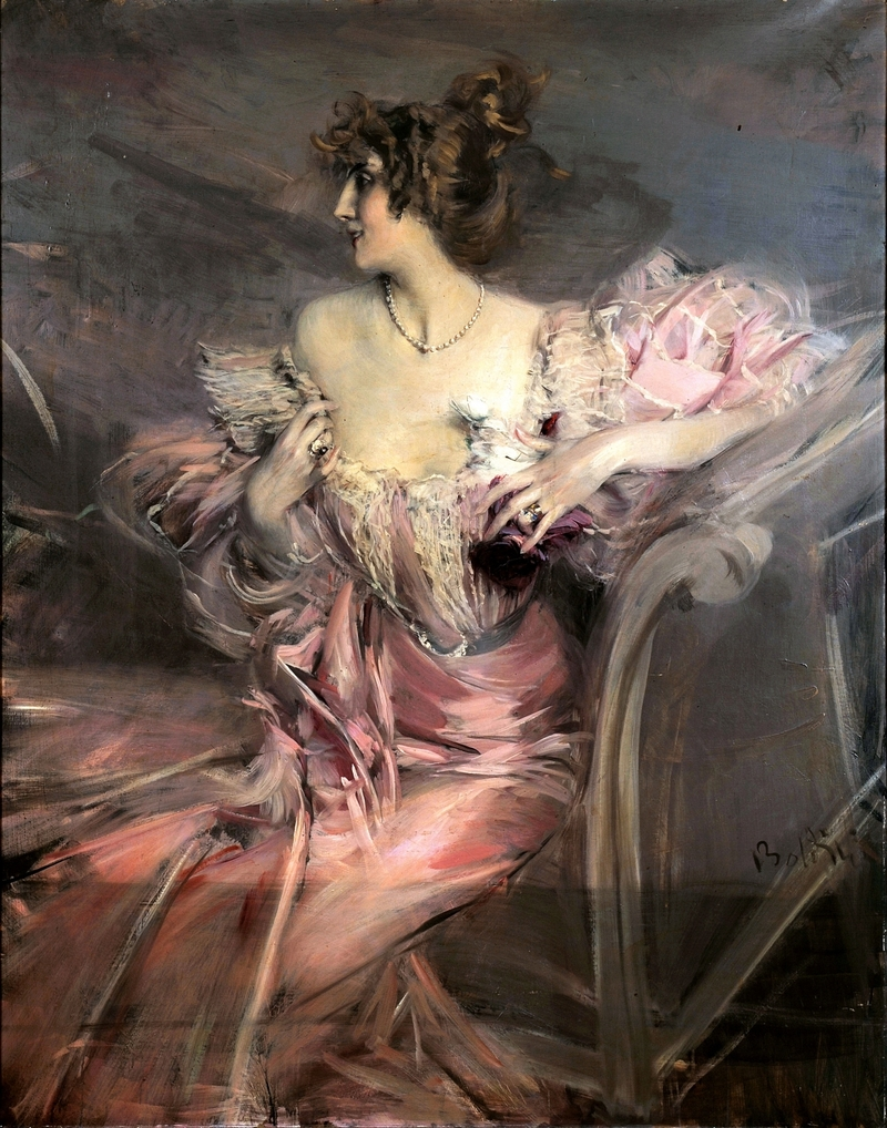 Portrait of the actress Marthe de Florian aged 24